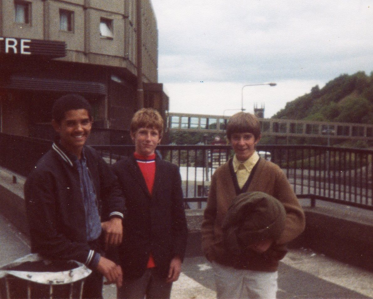 Mods in Edinburgh returning from Dunbar scooter rally - 1984